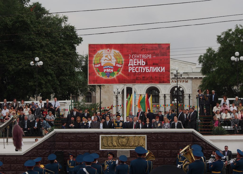 Transnistria (also called Trans-Dniestr or Transdniestria) is a breakaway state located mostly on a strip of land between the River Dniester and the eastern Moldovan border with Ukraine. Since its declaration of independence in 1990, and especially after the War of Transnistria in 1992, it is governed as the Pridnestrovian Moldavian Republic (PMR, also known as Pridnestrovie) a state with limited recognition that claims territory to the east of the River Dniester, the city of Bender, and its surrounding localities located on the west bank. The terms "Transnistria" and "Pridnestrovie" both reference the Dniester River. Wikipedia